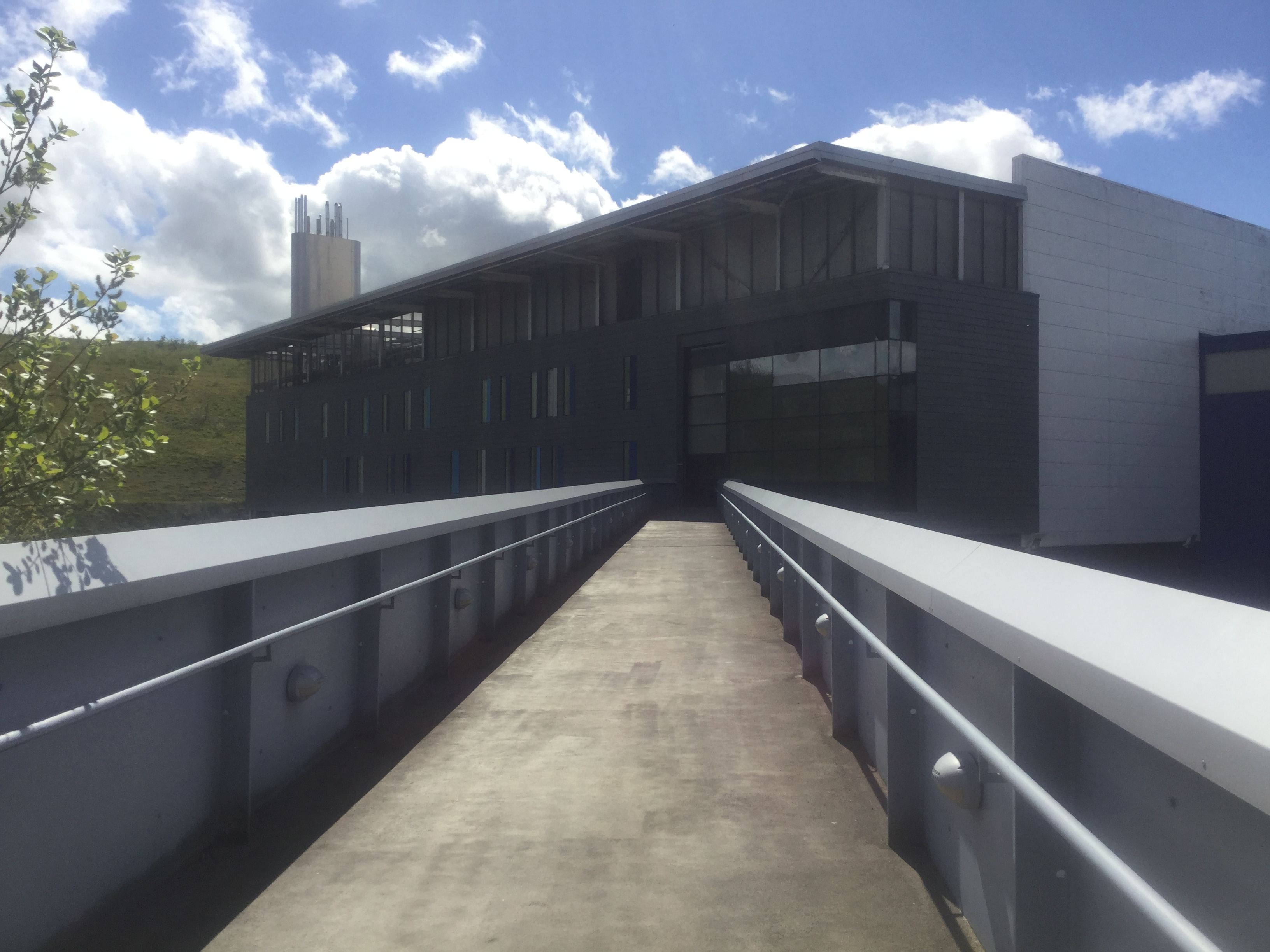 The bridge towards ISIS Neutron and Muon Source's second target station